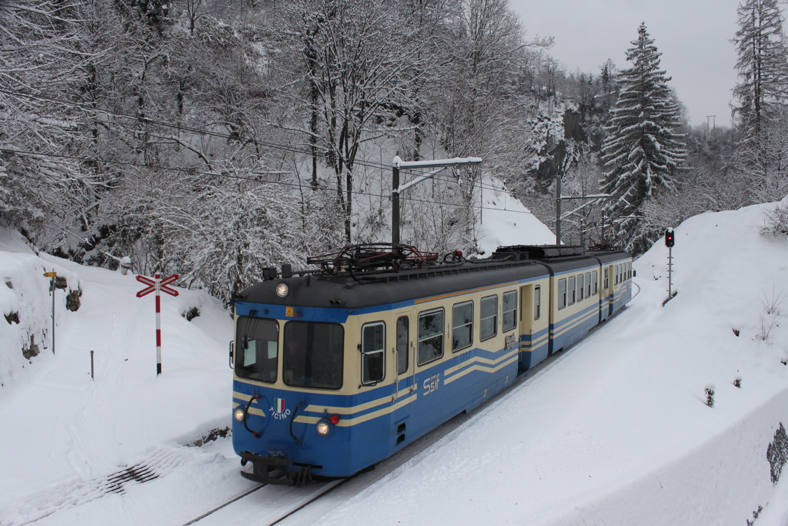 ABe 8/8 22 "Ticino", owned by SSIF, running from Locarno to Domodossola as D 40 at Palagnedra (Switzerland).